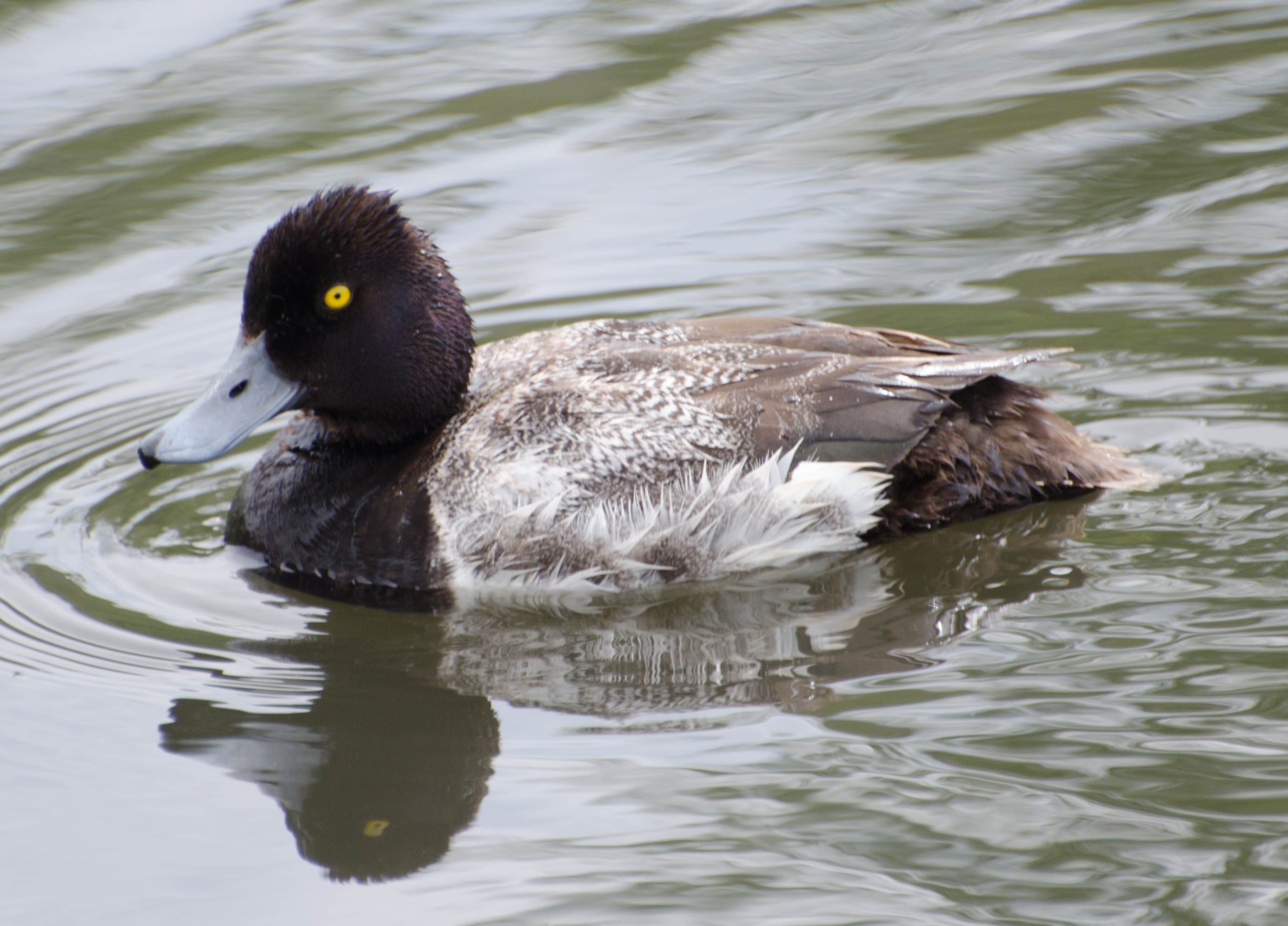 Lesser scaup - athya affinis in Edmonton, AB, Canada. June 2015